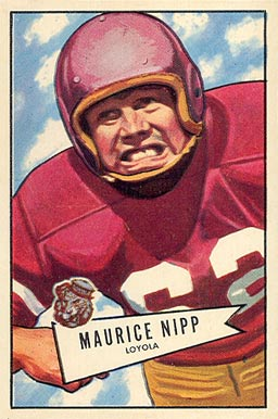 American football player Maury Nipp on a 1952 Bowman Large card.